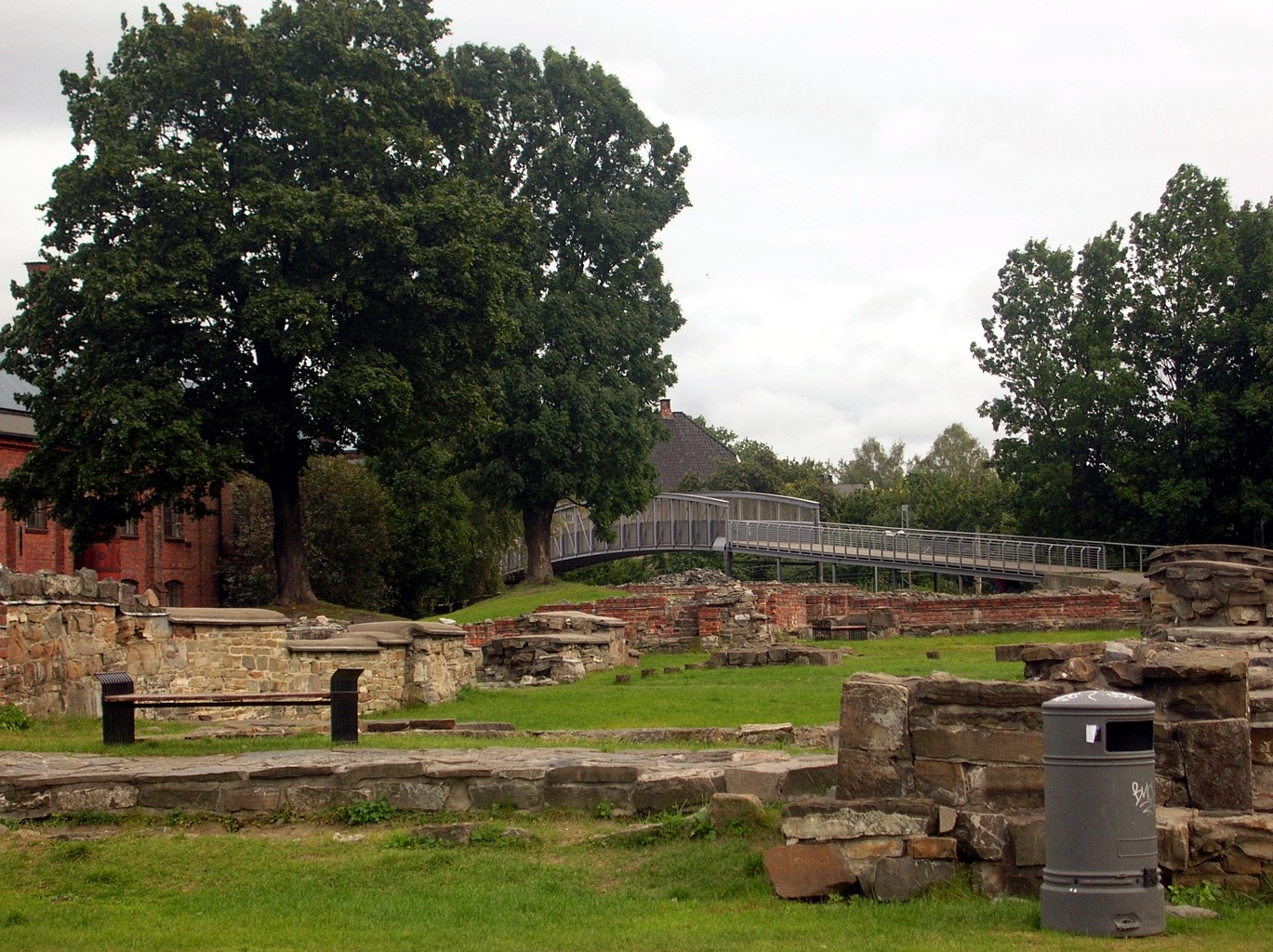 Ruine of St. Mary's Church in Oslo (Norway)